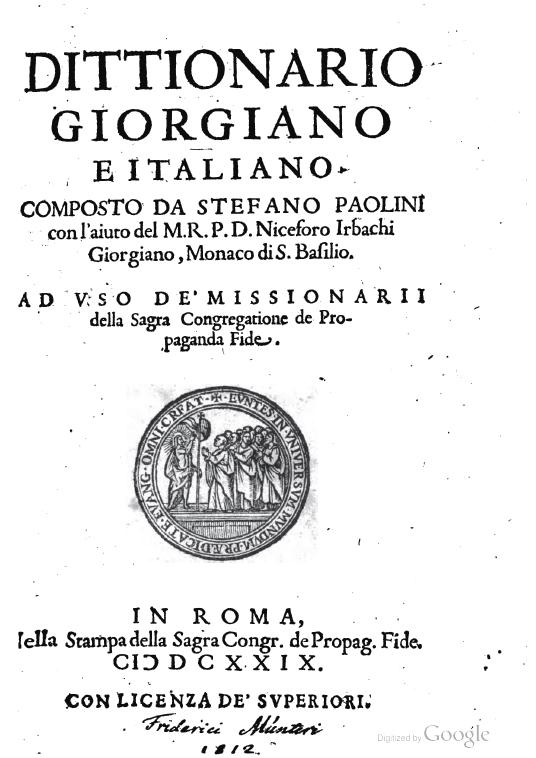 Title page of the "Georgian-Italian Dictionary by Stefano Paolini and Niceforo Irbachi". The first printed Georgian book, Rome, 1629